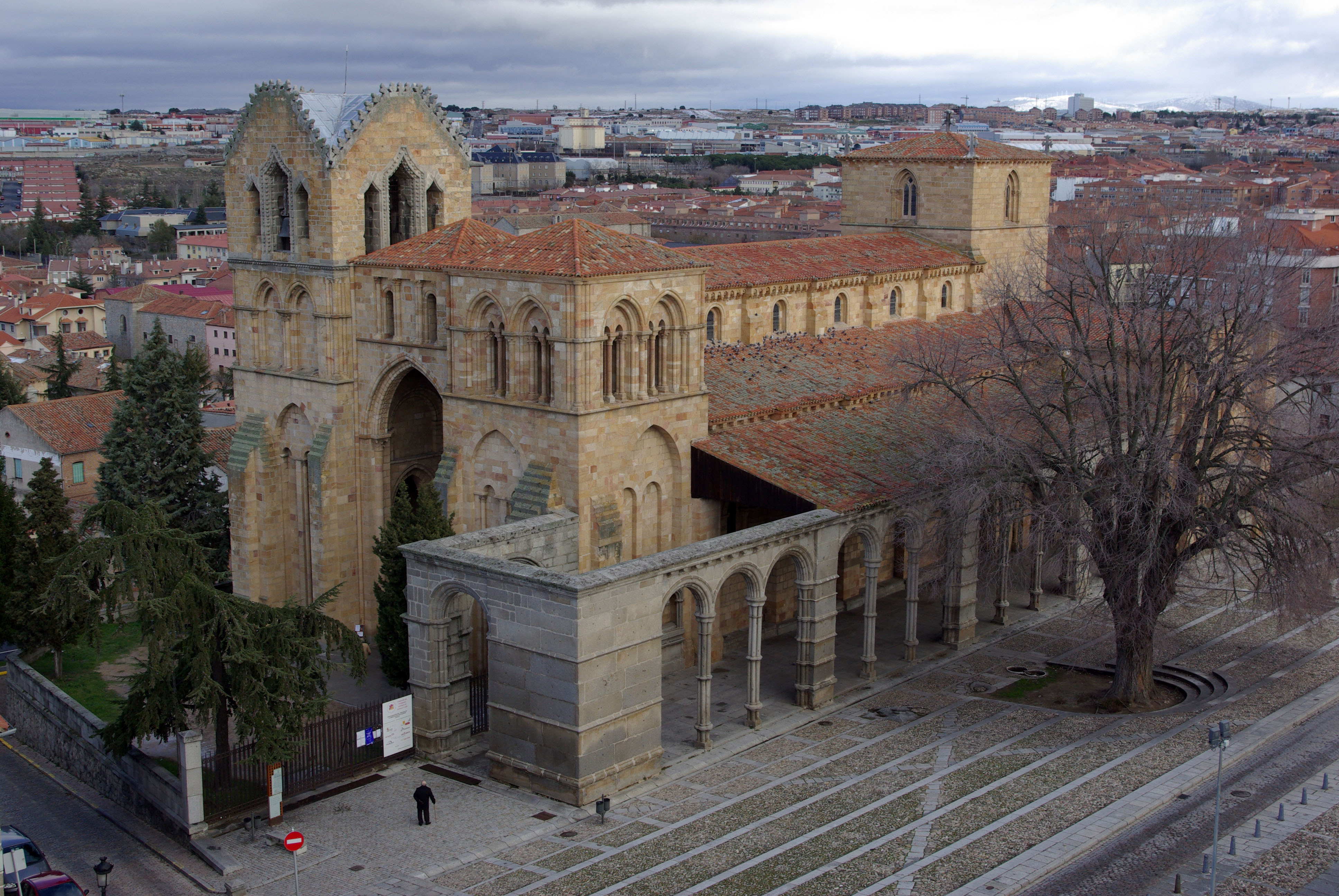 San Vicente Basilica, Ávila (Spain).